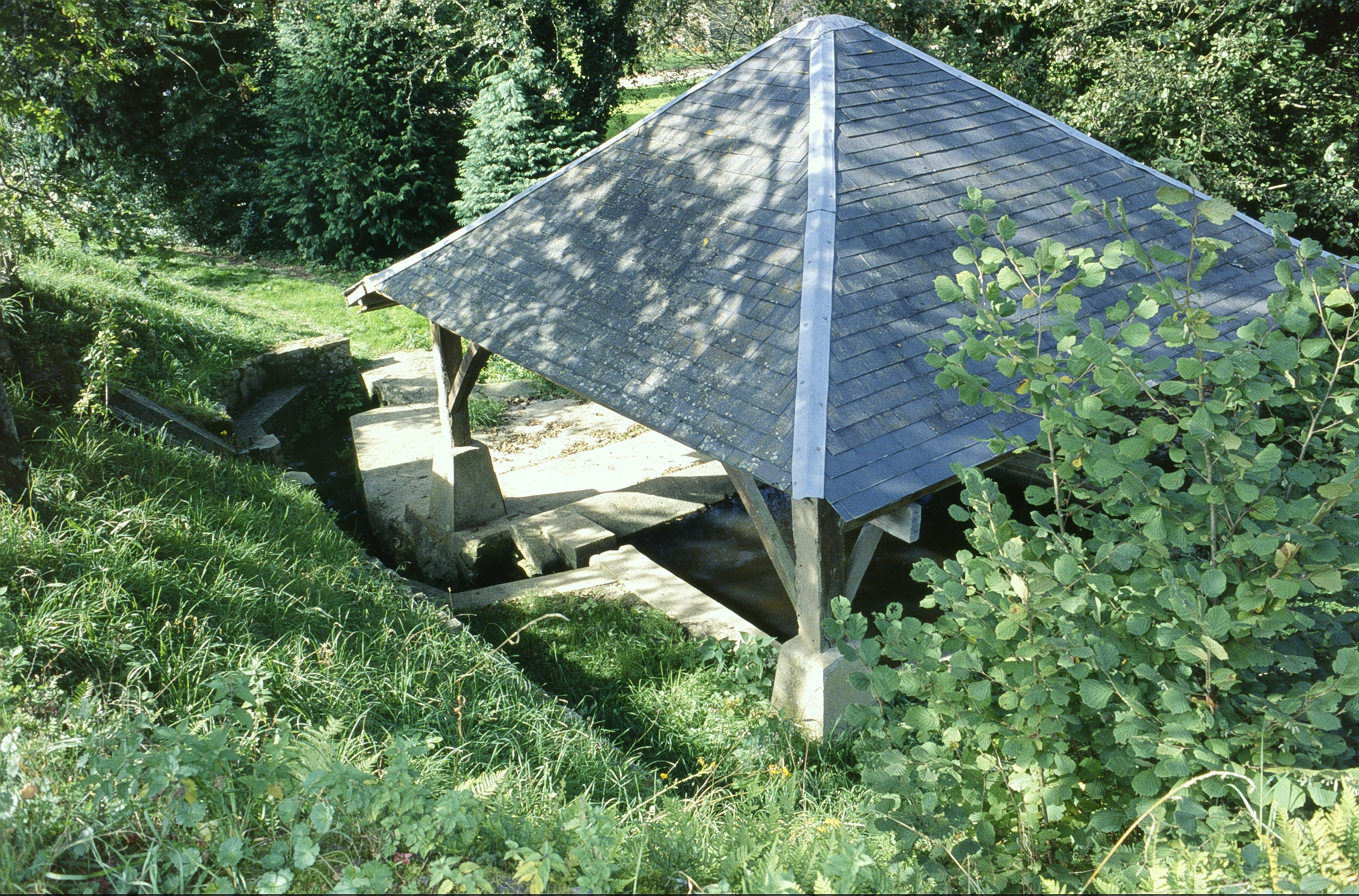 The wash house of hamlet "Val besnet" on the country village Fourneaux-le-Val